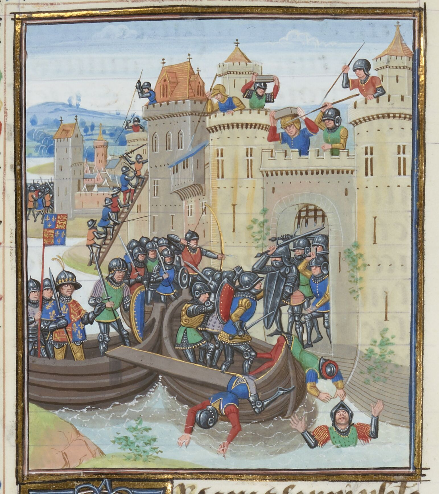 The St Albans Chronicle: The Chronica Maiora of Thomas Walsingham/ Thomas Walsingham, monk at St Albans Abbey, writing in about 1340